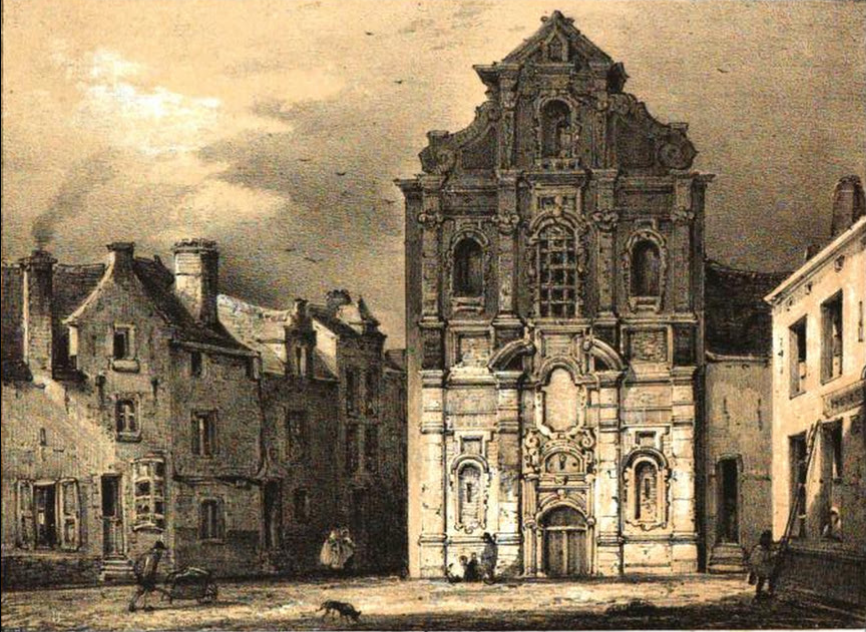 Brigitine church. Illustration from Guide pittoresque dans Bruxelles: dédié aux dames